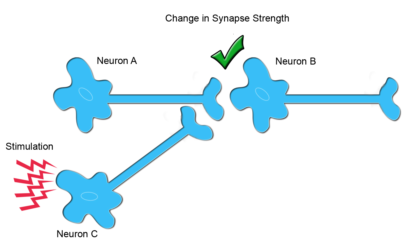 Neuron C acts as an interneuron, releasing neuromodulators which alter Neuron A's efficiency of transmission onto Neuron B.